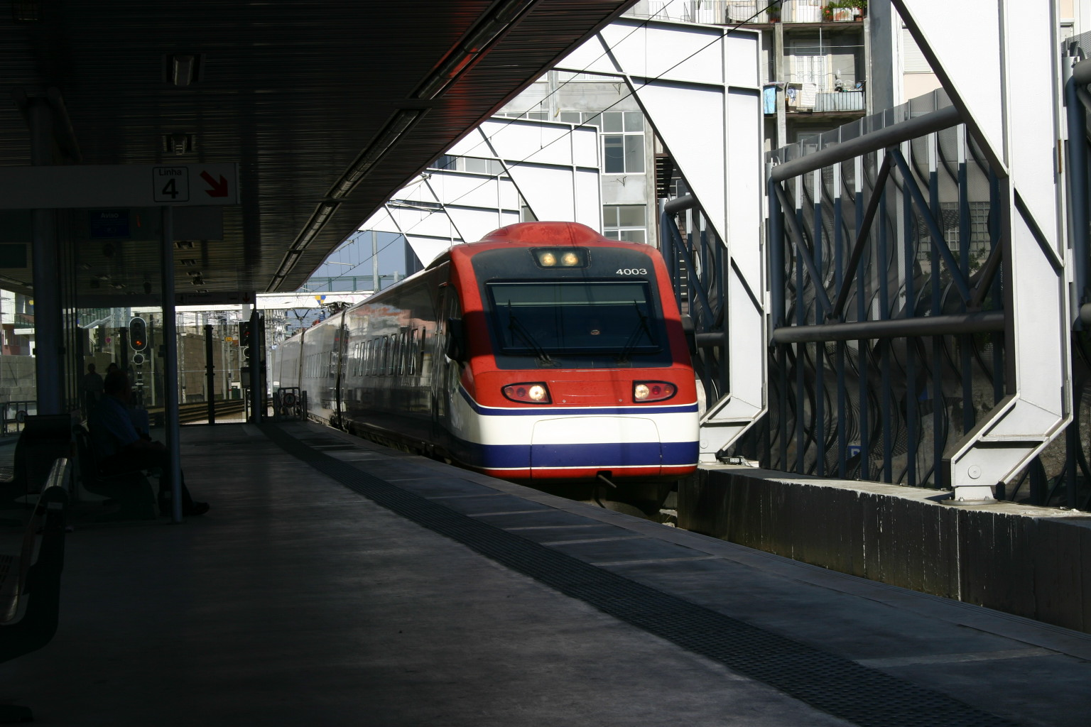 Alfa Pendular train entering Entrecampos train station in Lisbon, Portugal